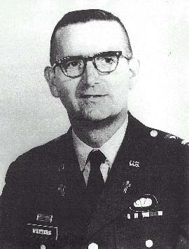 United States Army Major Charles J. Watters, chaplain and Medal of Honor recipient for his actions in the Vietnam War